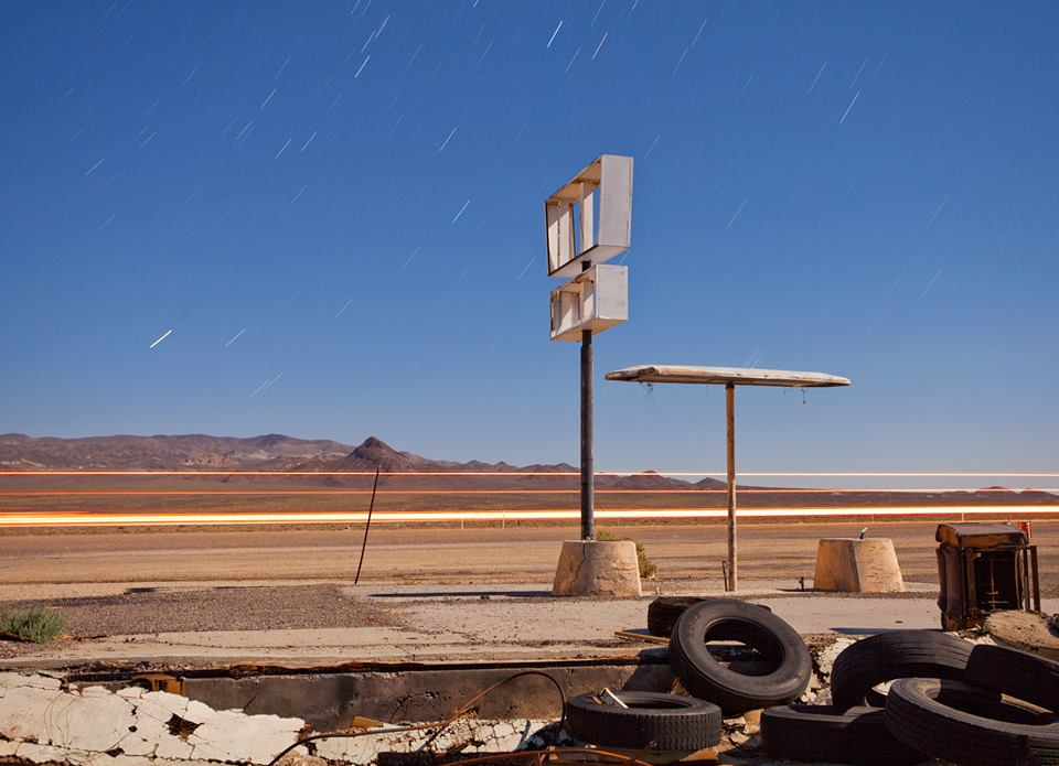 the abandoned Ghosttown of Coaldale